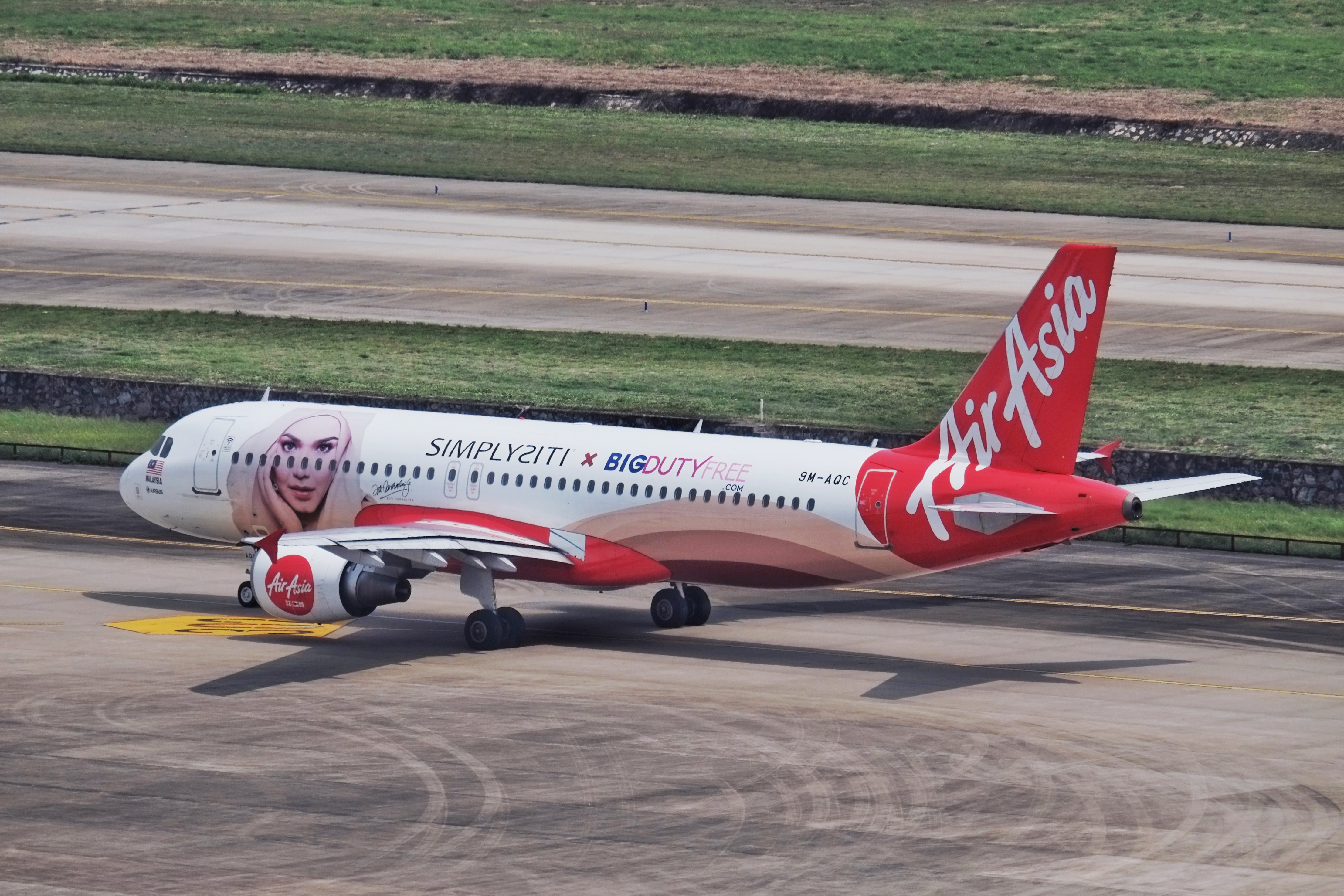 9M-AQC on flight AK127 to Kuala Lumpur